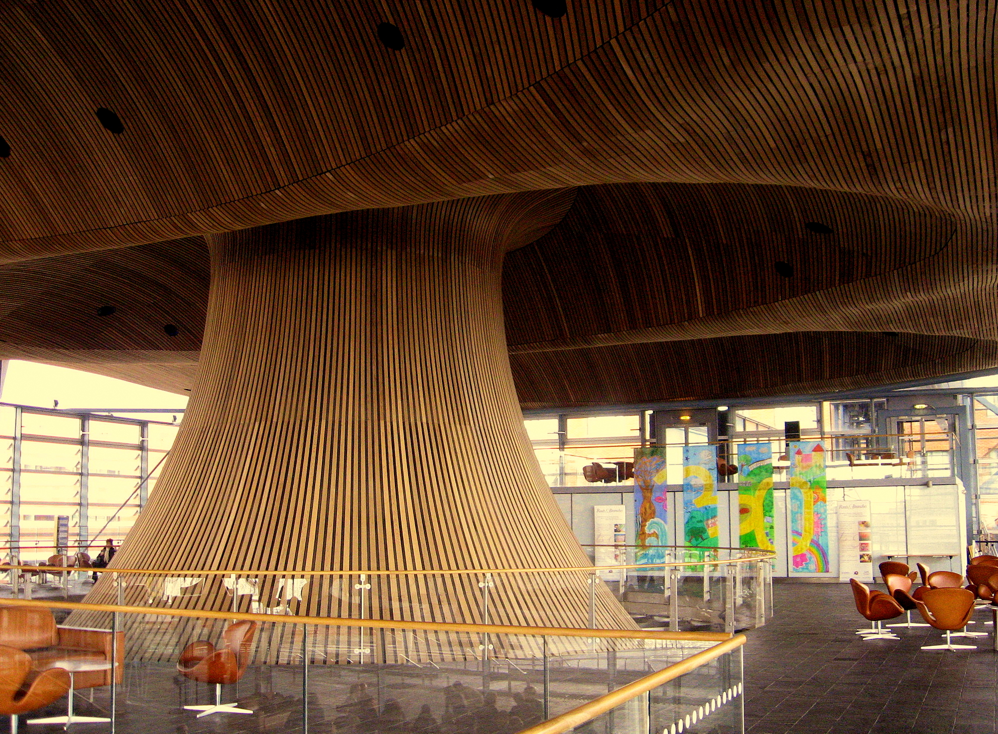 The Oriel and cowl in the National Assembly of Wales (Senedd), Cardiff